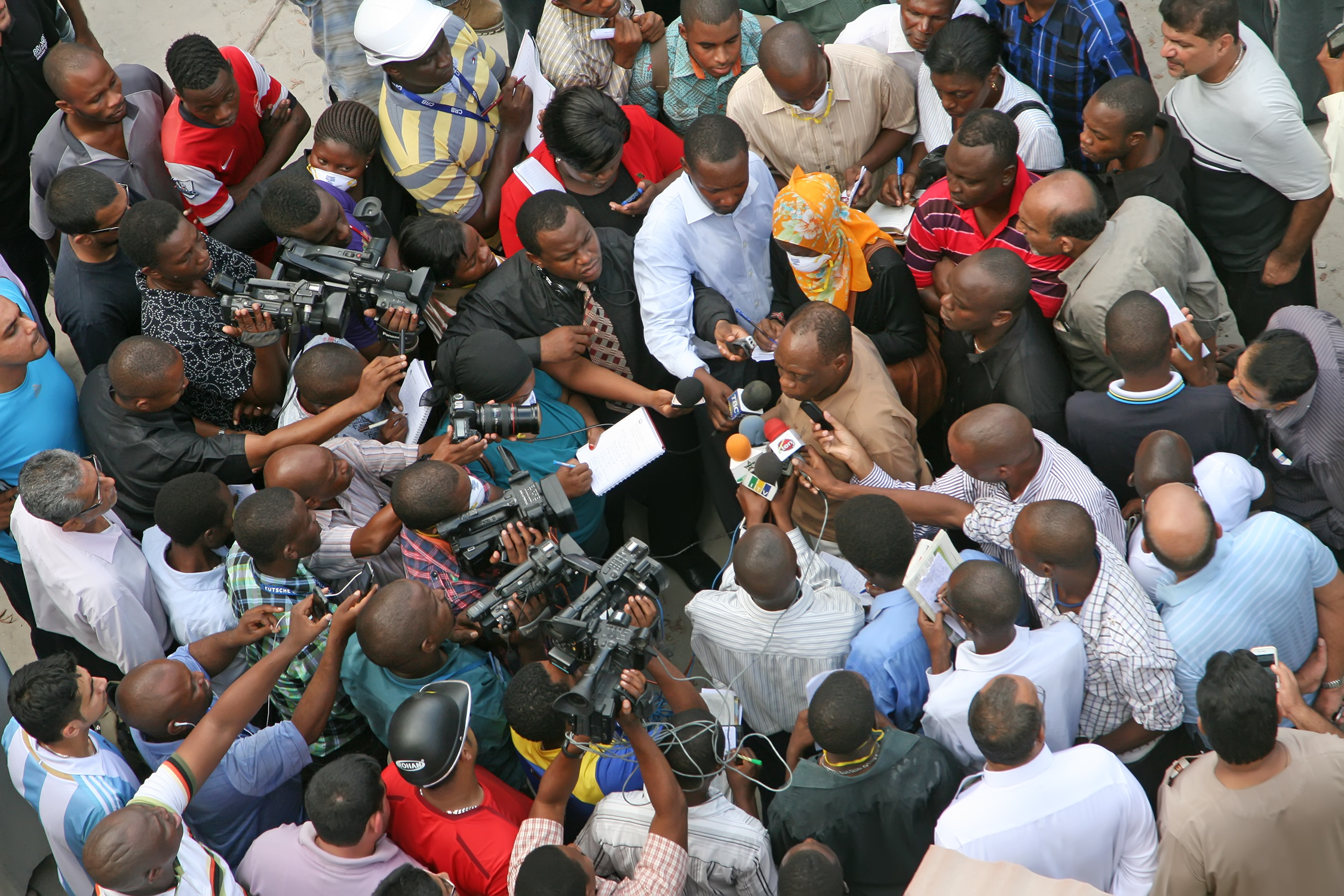 Police Commissioner Suleiman Kova answers and addresses the media at ground zero near the 2013 Dar es Salaam building collapse